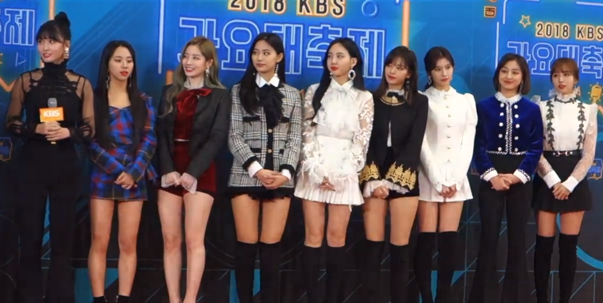 Twice at KBS Gayo Daejun on December 28, 2018.